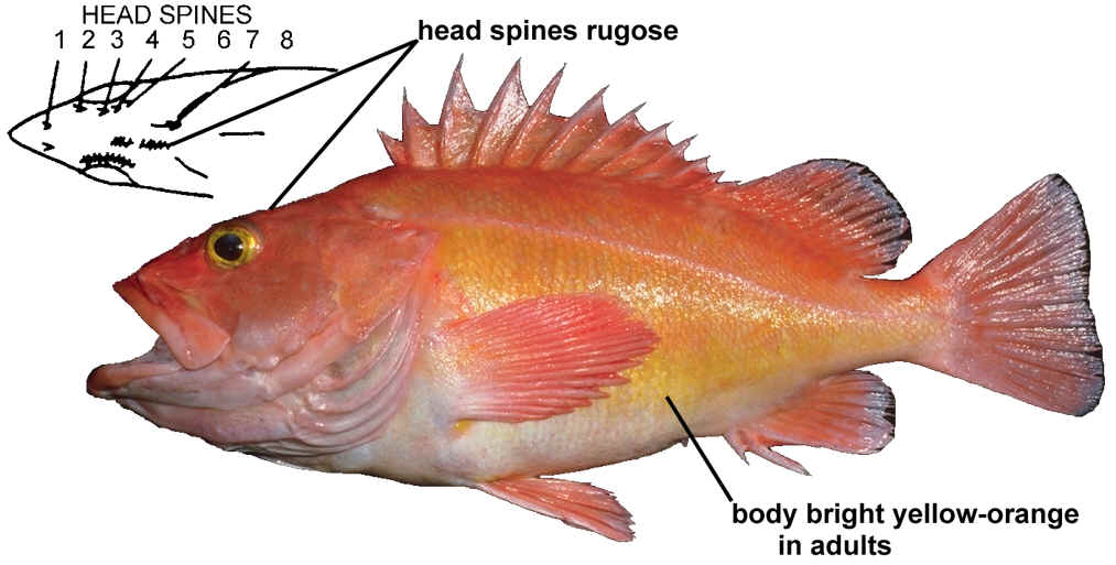 A Yellow Eye rockfish. Diagram points out its spines in particular.